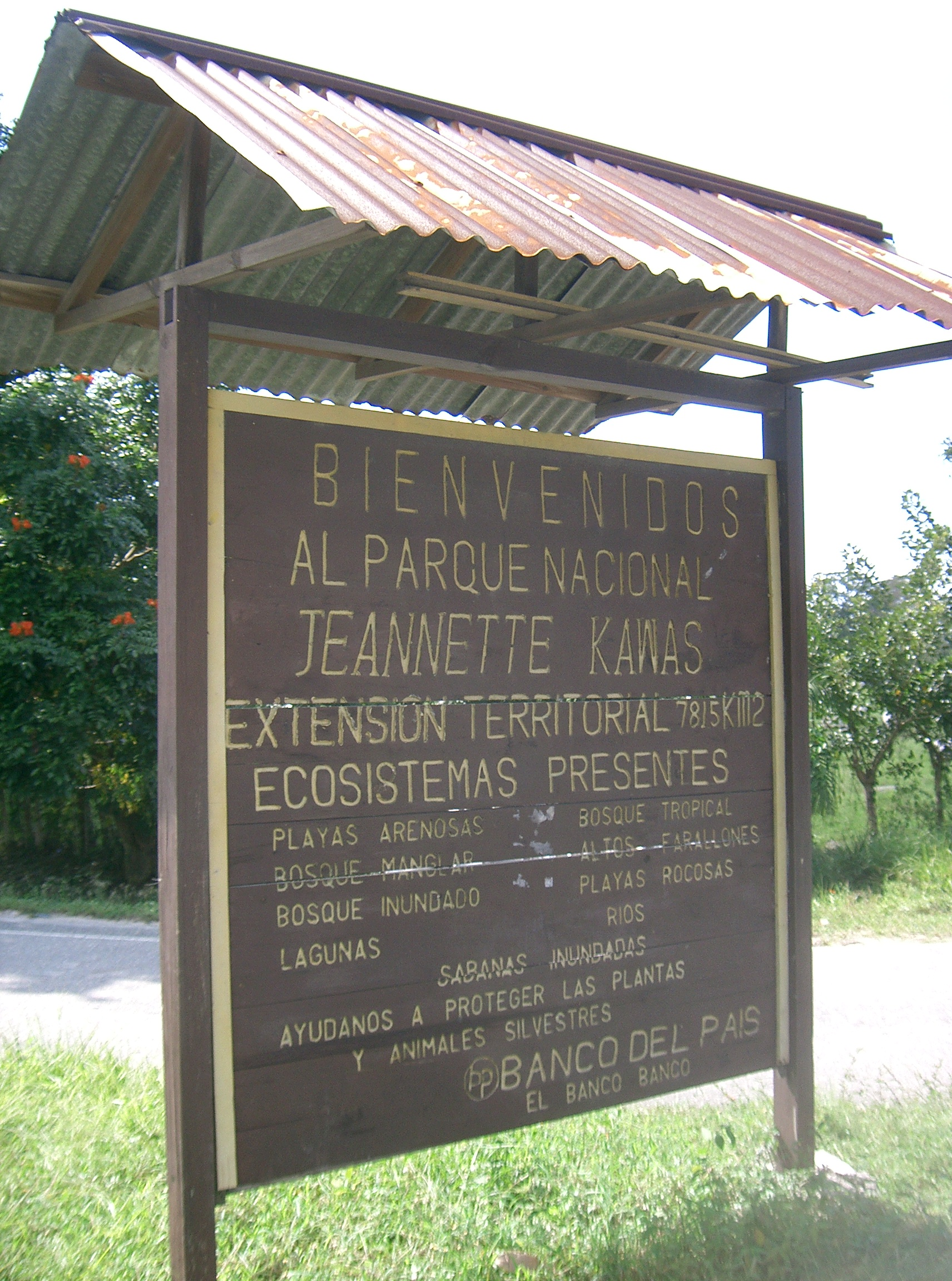 The welcome sign to "Parque Nacional Jeannette Kawas", west of the city of Tela (Honduras).